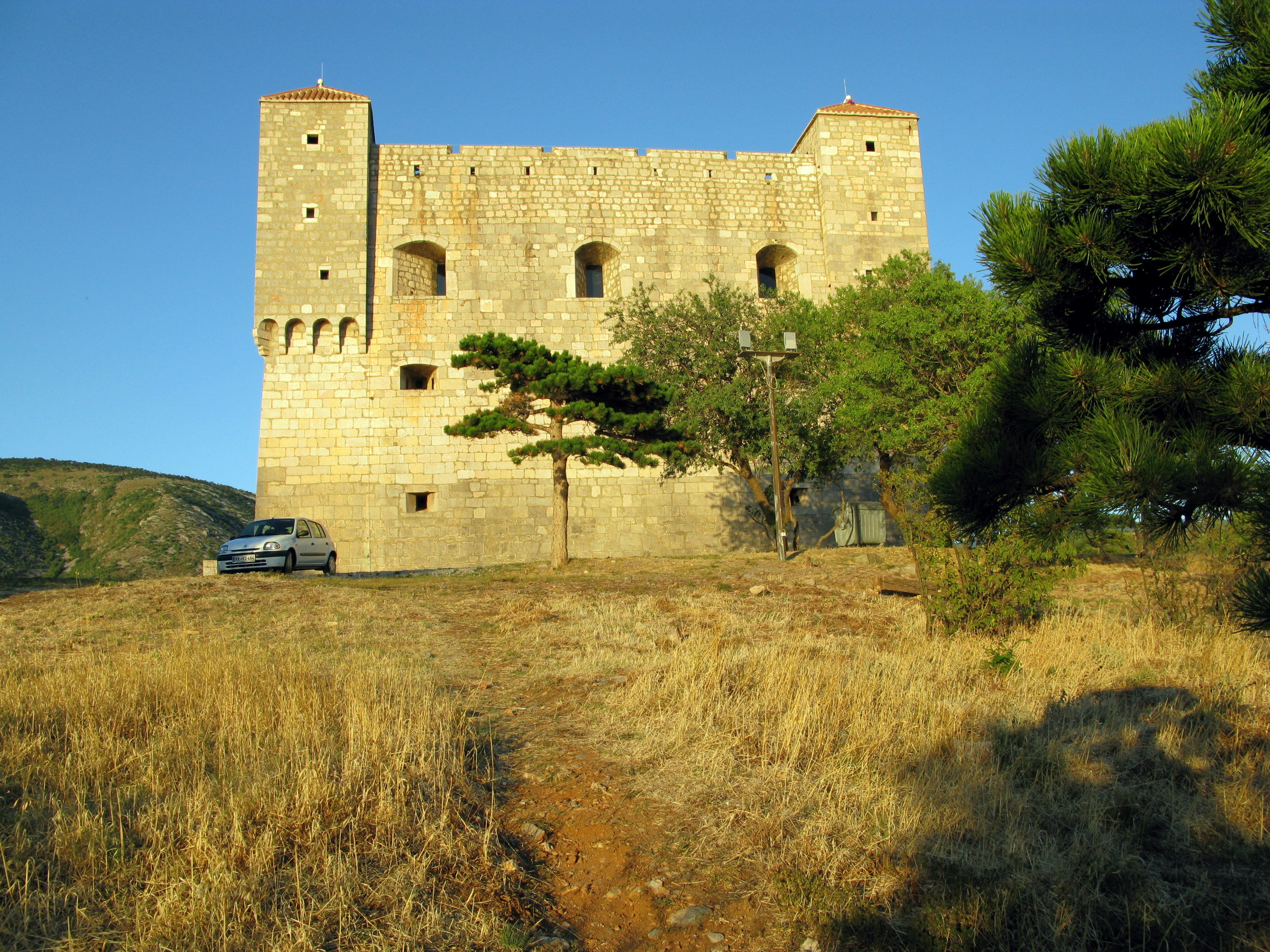 Southwestside of Fortress Nehaj fortress in Senj / Croatia / Adriatic Sea at sunset.